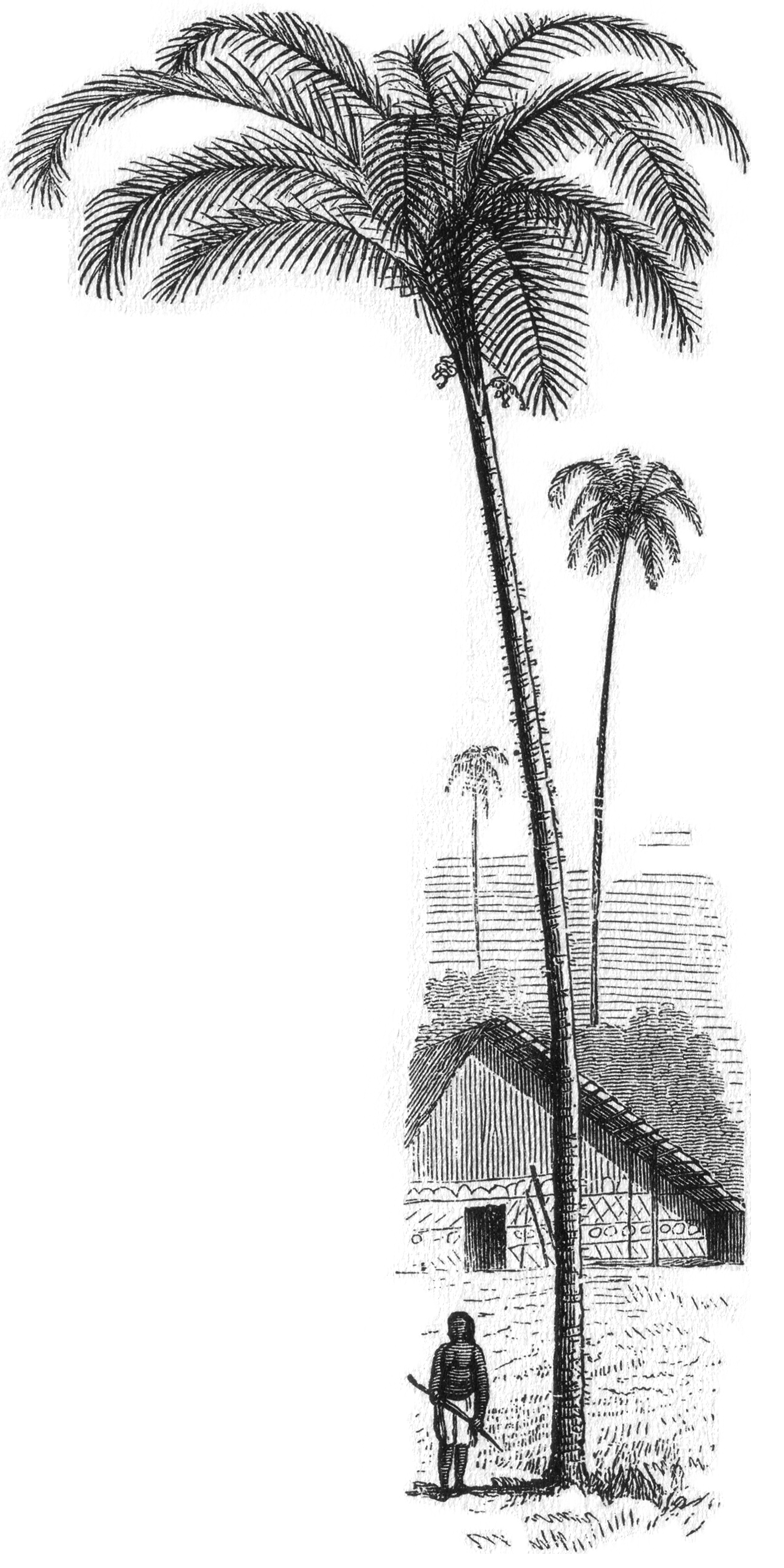 Caption: "Pupunha Palm." (text in white area removed)